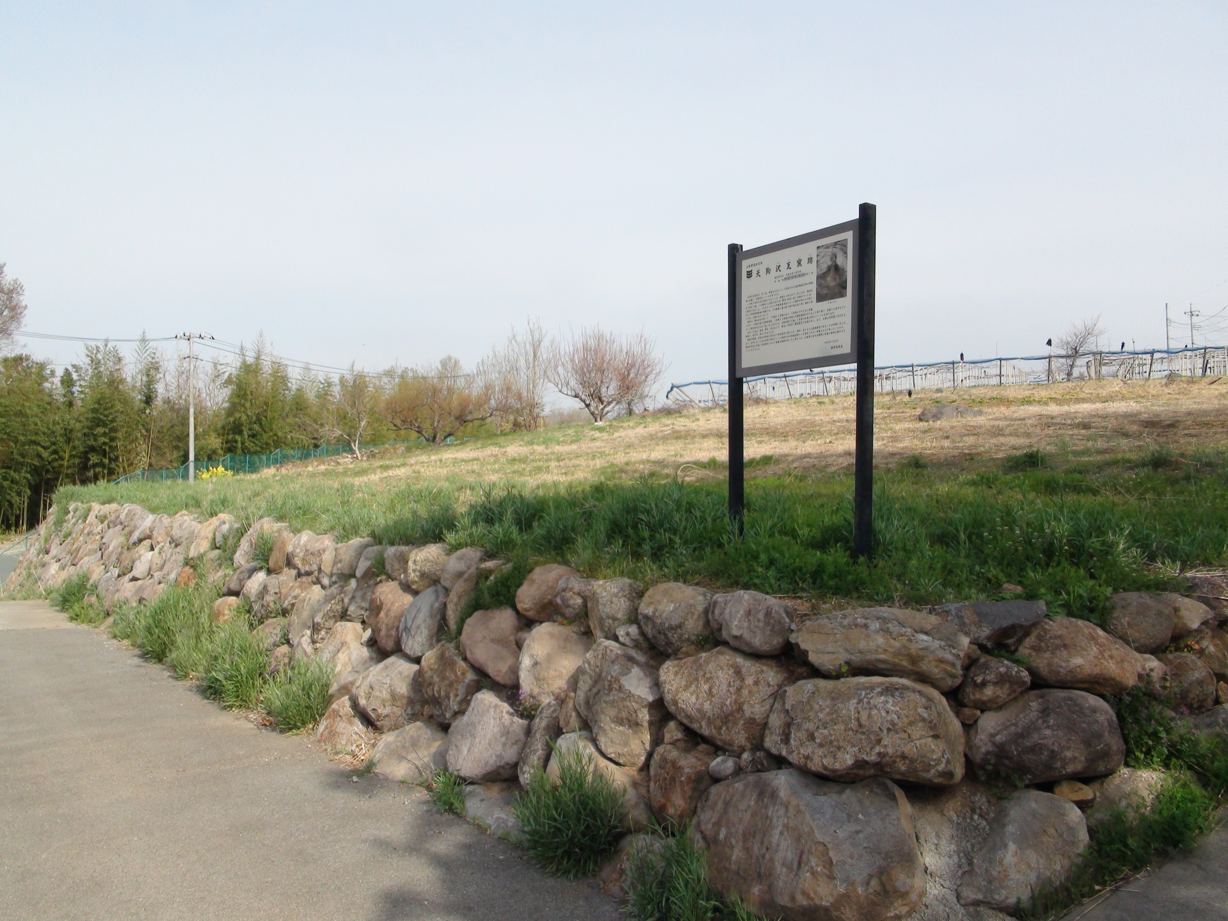 The ruins of the remains of Tengusawa Gayoseki tile kiln